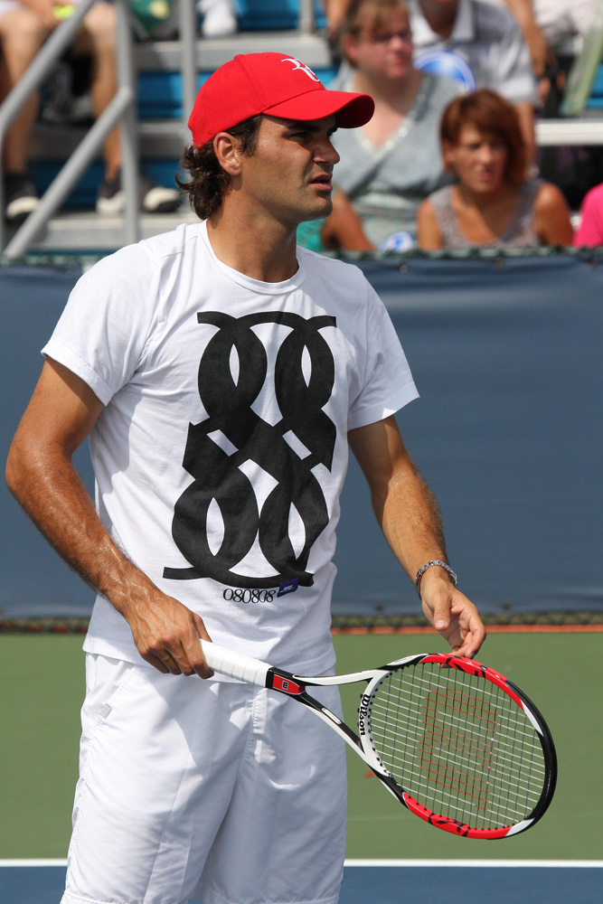 Roger Federer at the 2008 Western & Southern Financial Group Masters Mason, Ohio